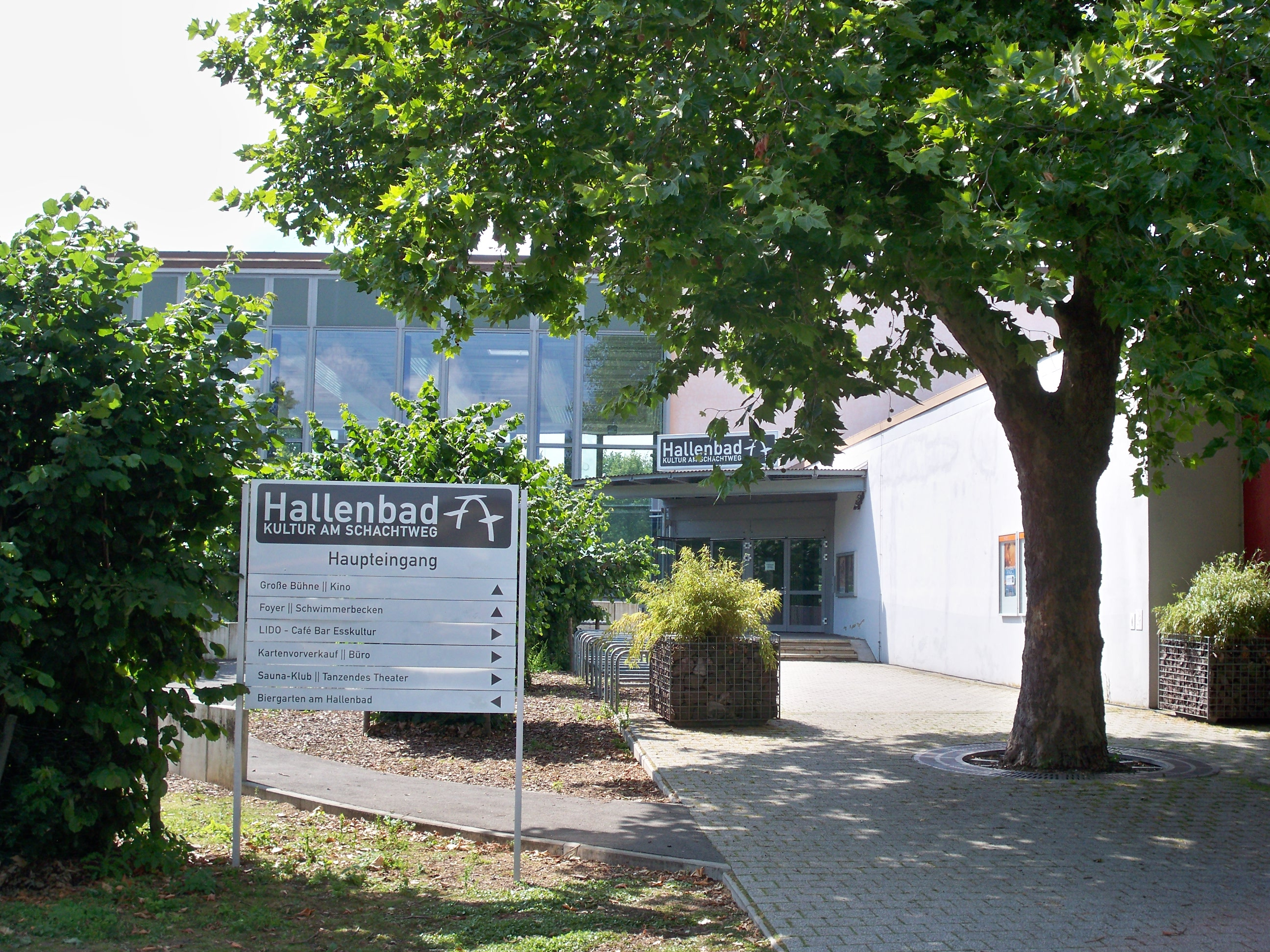 Wolfsburg, Lower Saxony, Hallenbad (cultural centre), main entrance